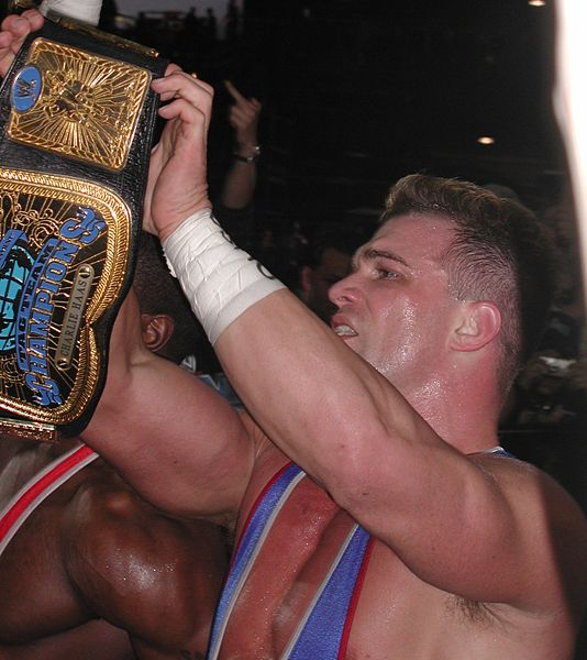 Charlie Hass at WrestleMania XIX. Safeco Field, Seattle, WA, on March 30, 2003.